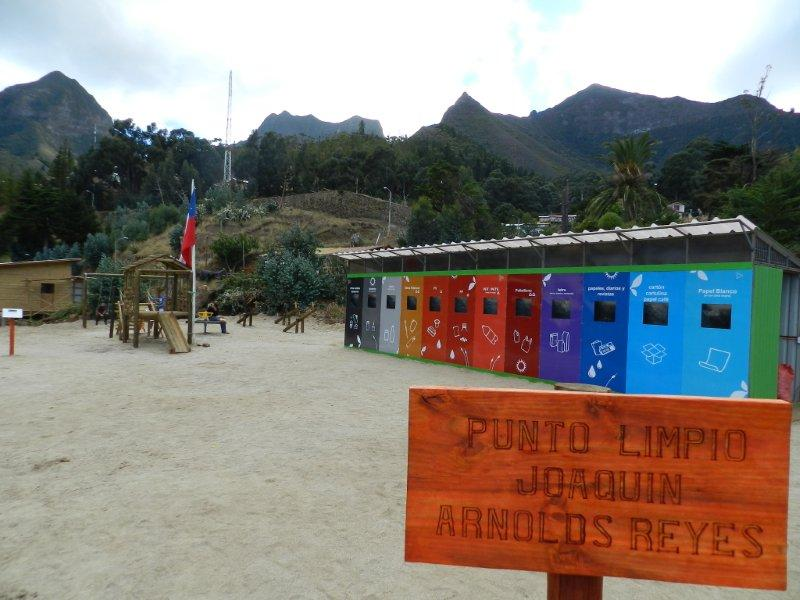 "Joaquin Arnolds Reyes" Recycling Point at Archipiélago Juan Fernández